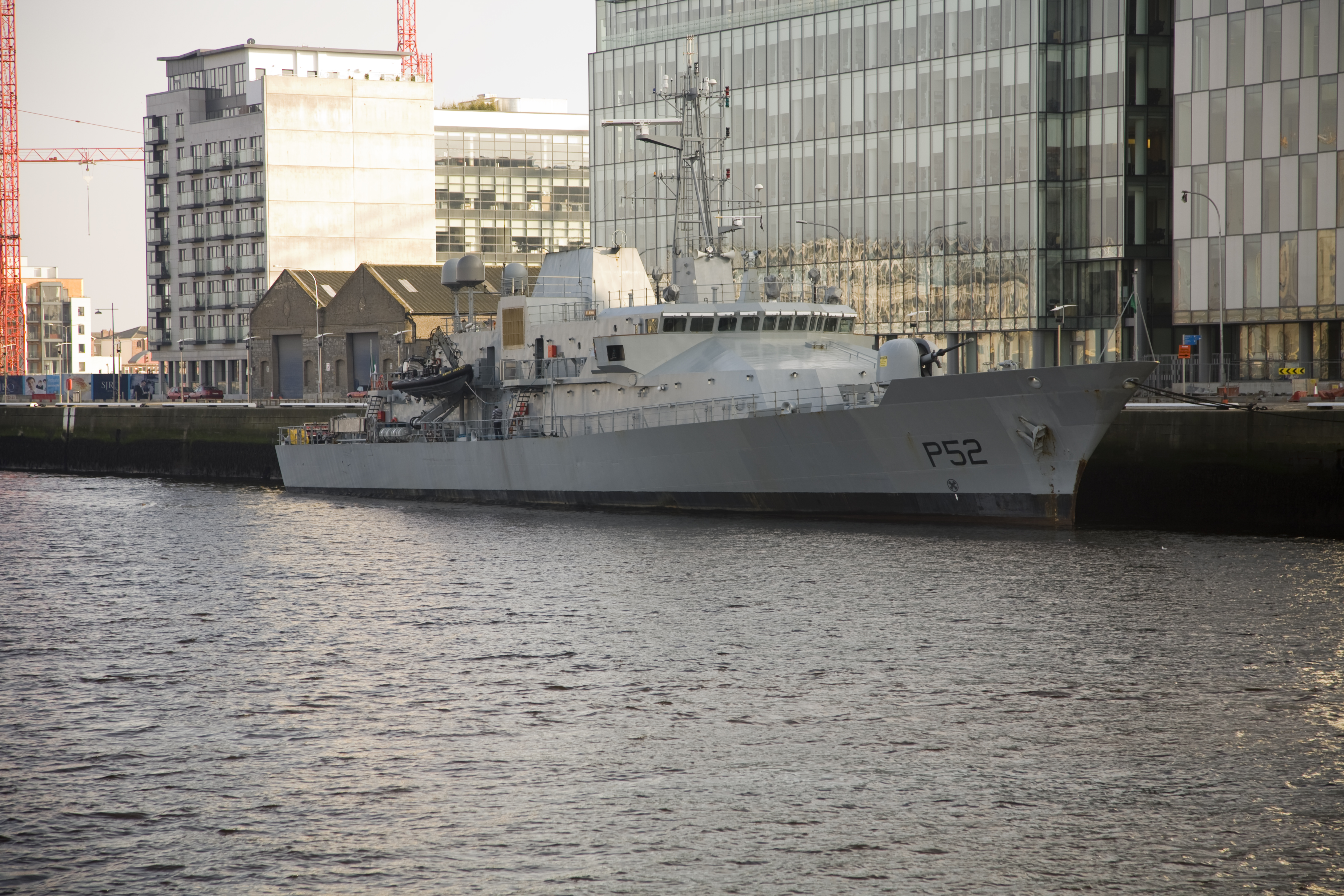 LE Niamh (P52) in Dublin